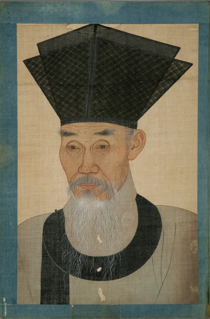 Portrait of Yoon Bong-gu